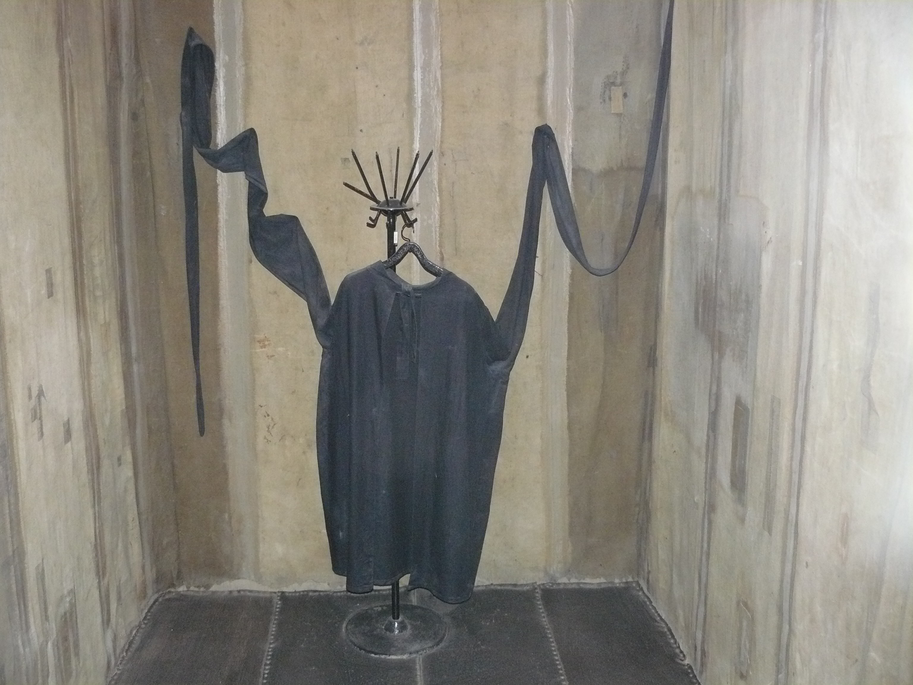 Former building of KGB, Vilnius, Lithuania, November 2007